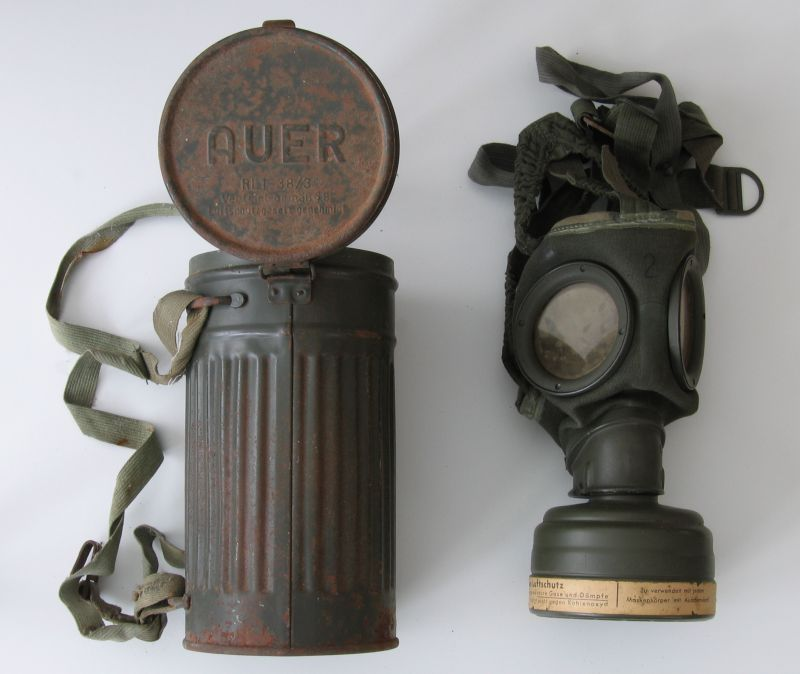 German gas mask with box, about 1941